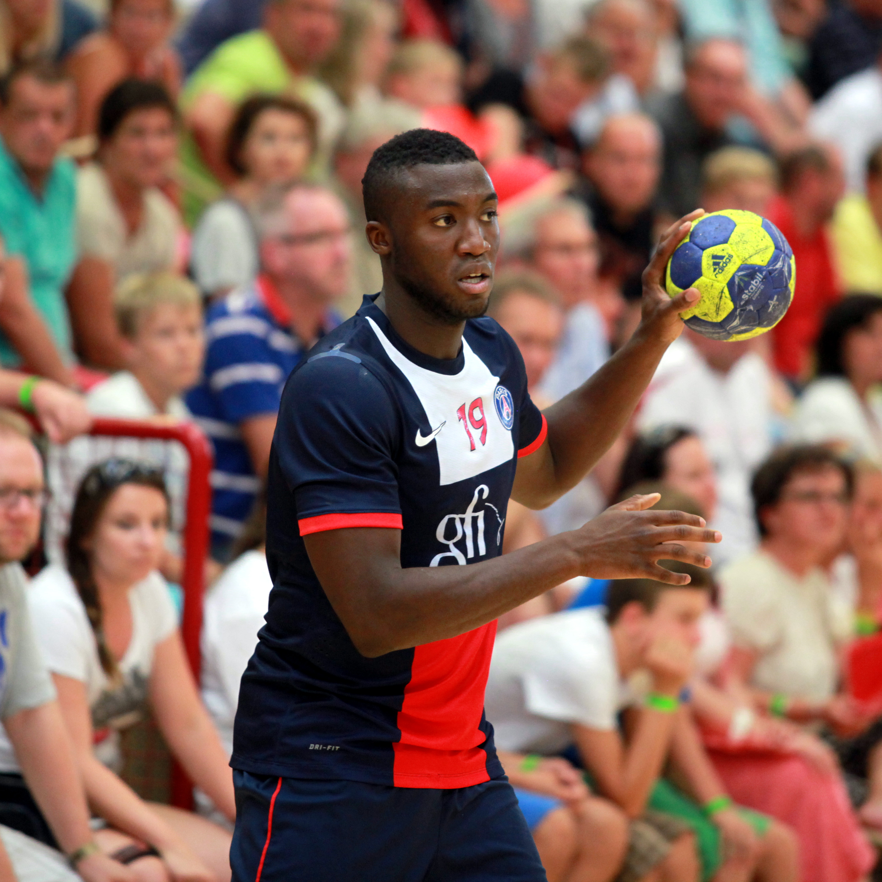 Luc Abalo, on August 17th, 2012 in Ehingen (Germany), during the Sparkassen Cup (formerly known as Schlecker Cup).